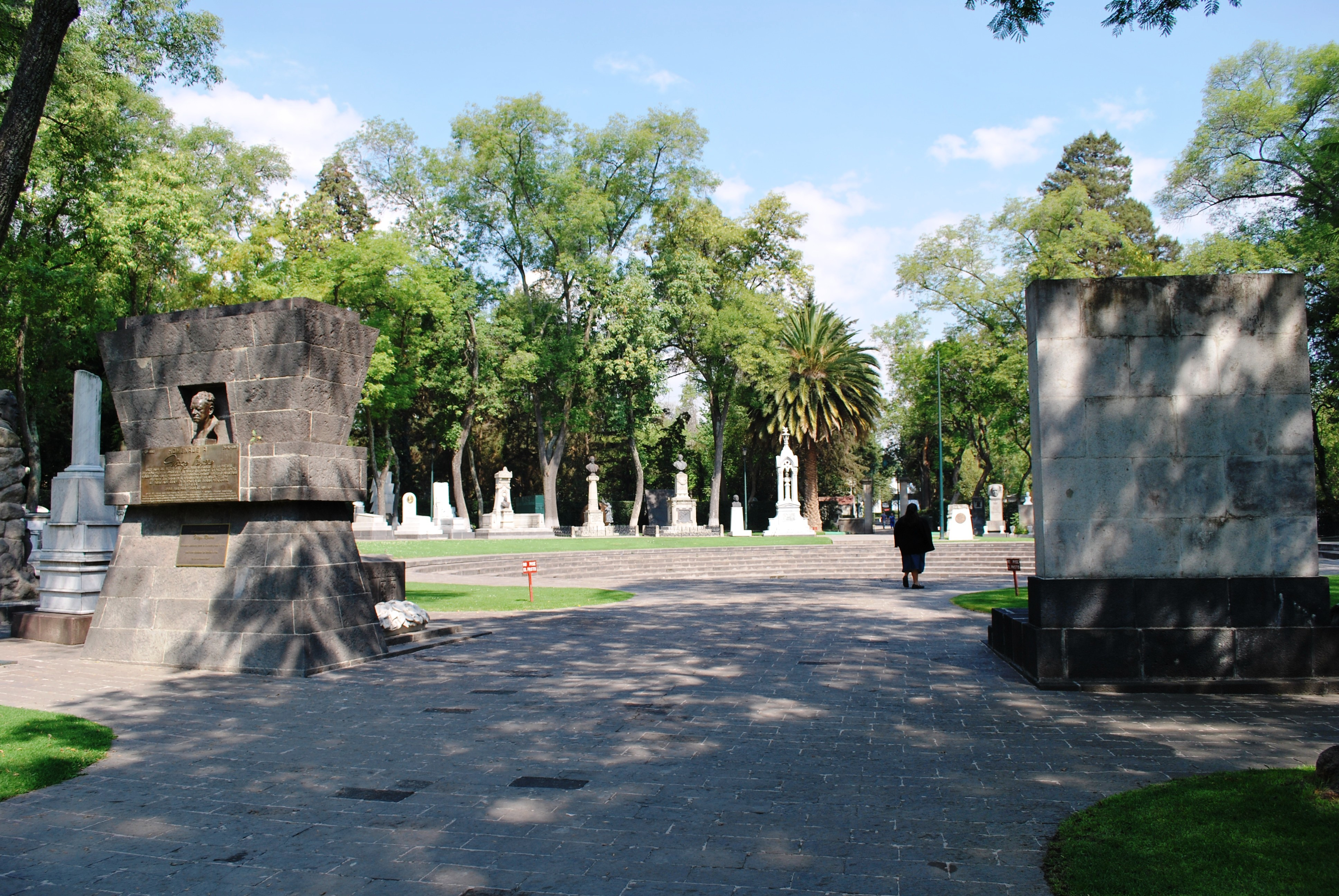 Entering the Illustrious Person Rotunda in Dolores Cemetery in Mexico City.